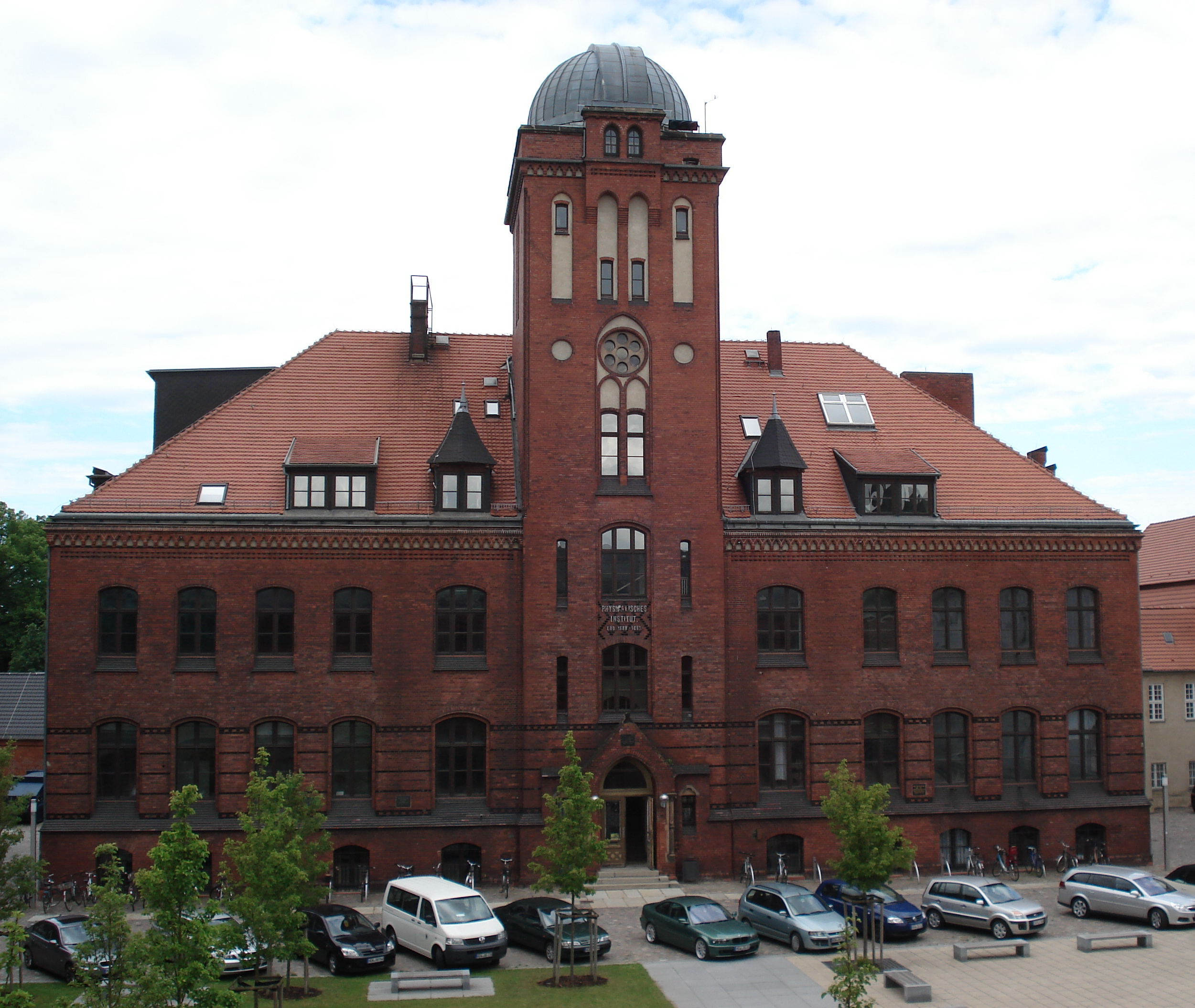 Former institute for physics and observatory of university of Greifswald